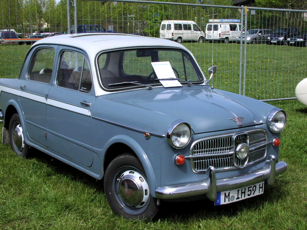 Fiat 1100-103 TV